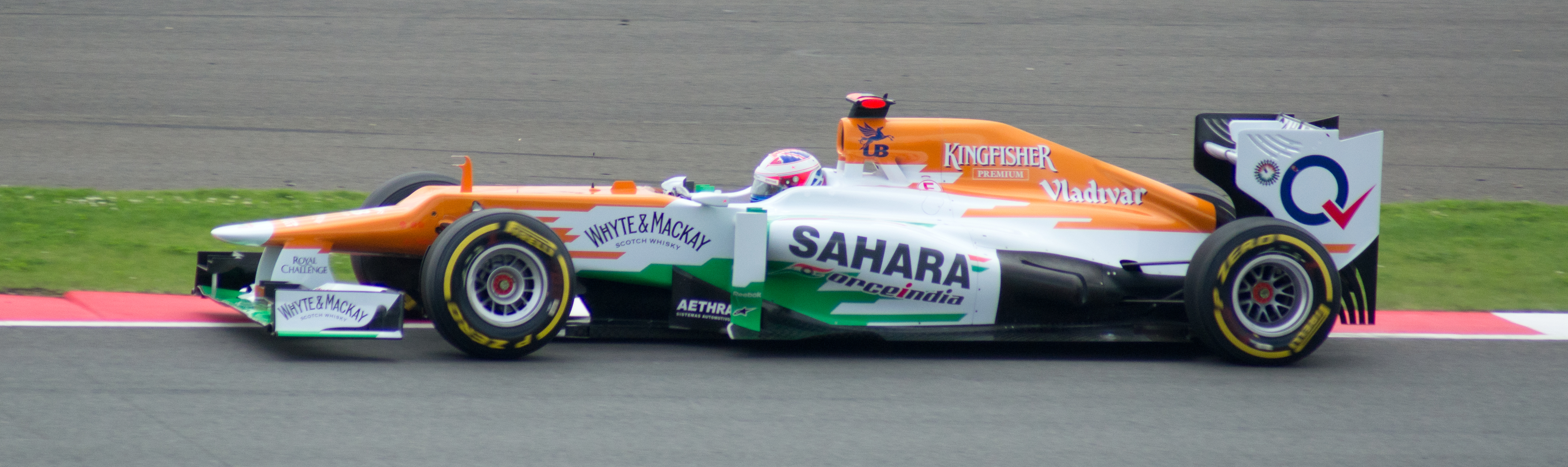 Paul di Resta driving his Force India VJM05 during the 2012 British Grand Prix.